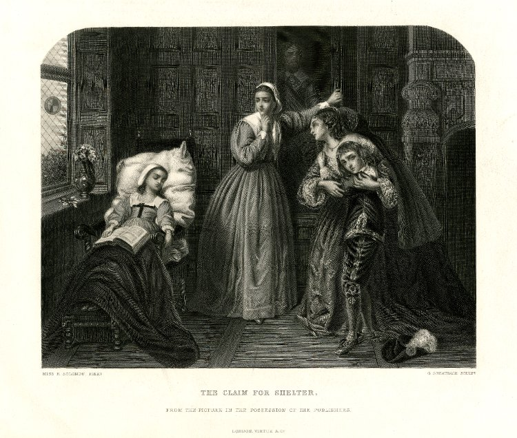 The Claim for ShelterEngraving by George Greatbach (1819–1884), published in The Art Journal, June 1869, opposite p.184.